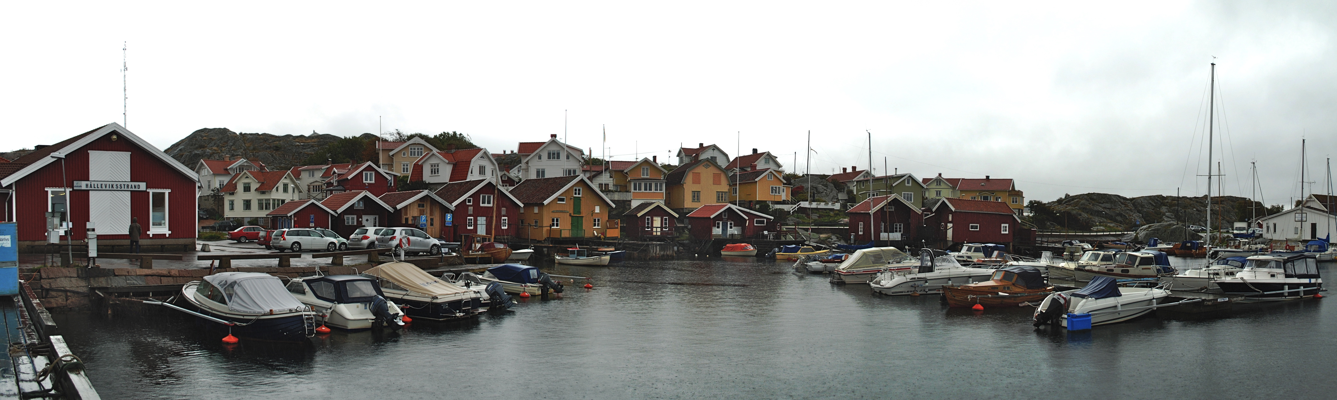 Hälleviksstrand, 2010.